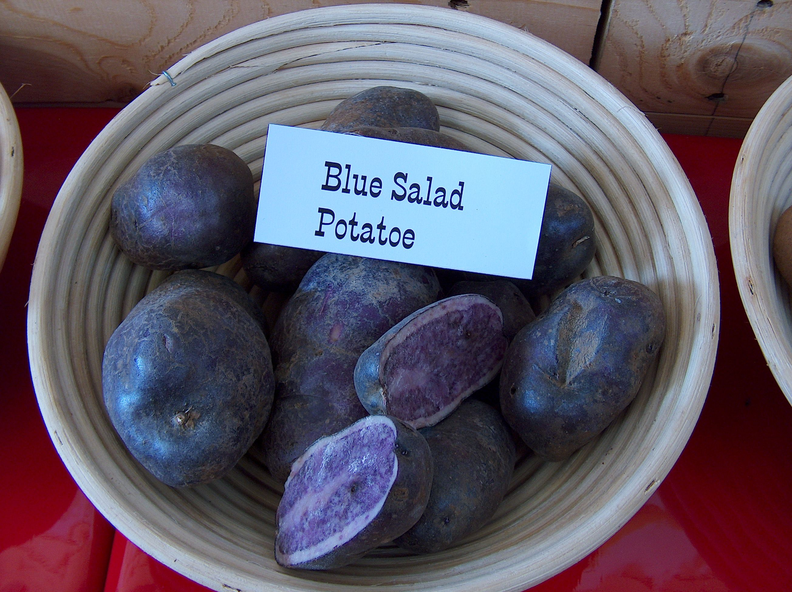 Blue Salad Potato